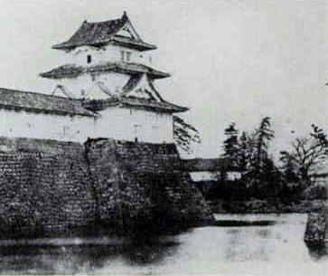 Castle keep of Obama